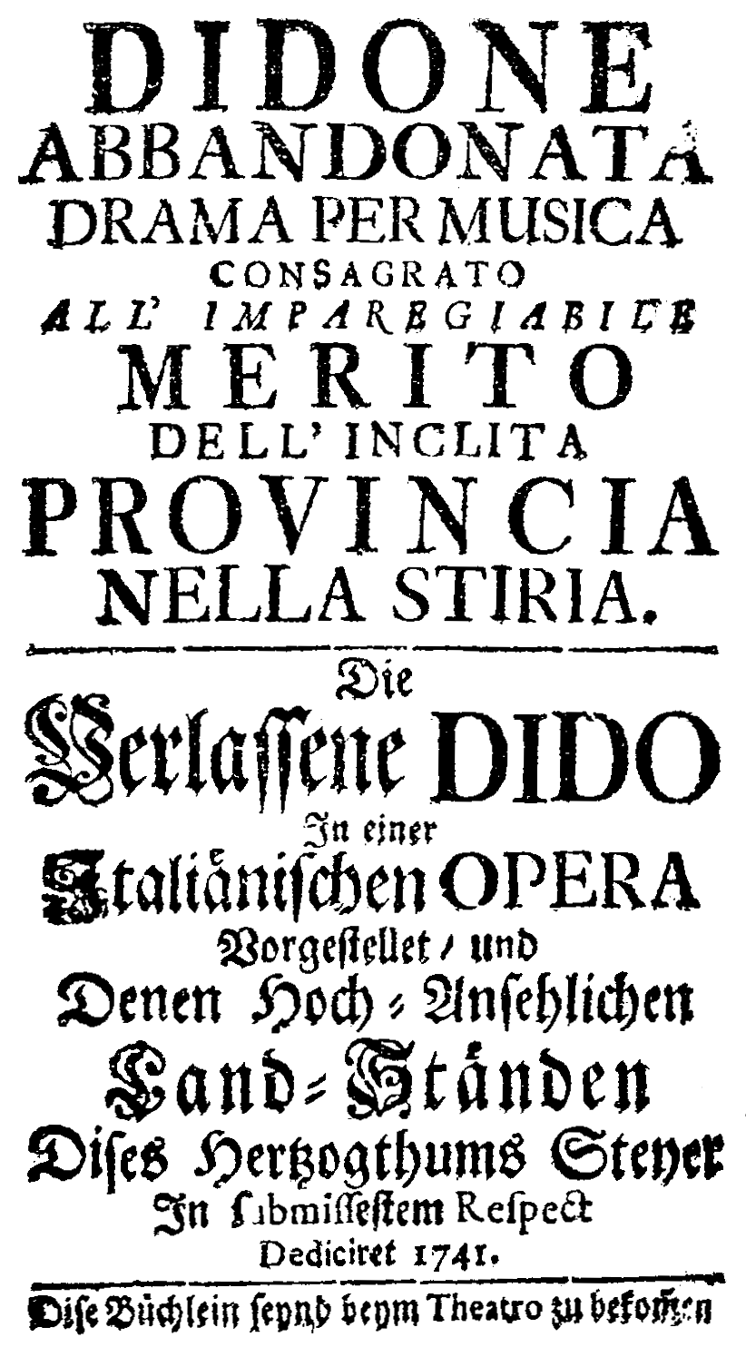 Johann Leopold van Ghelen - Didone abbandonata - titlepage of the libretto - Steyr 1741